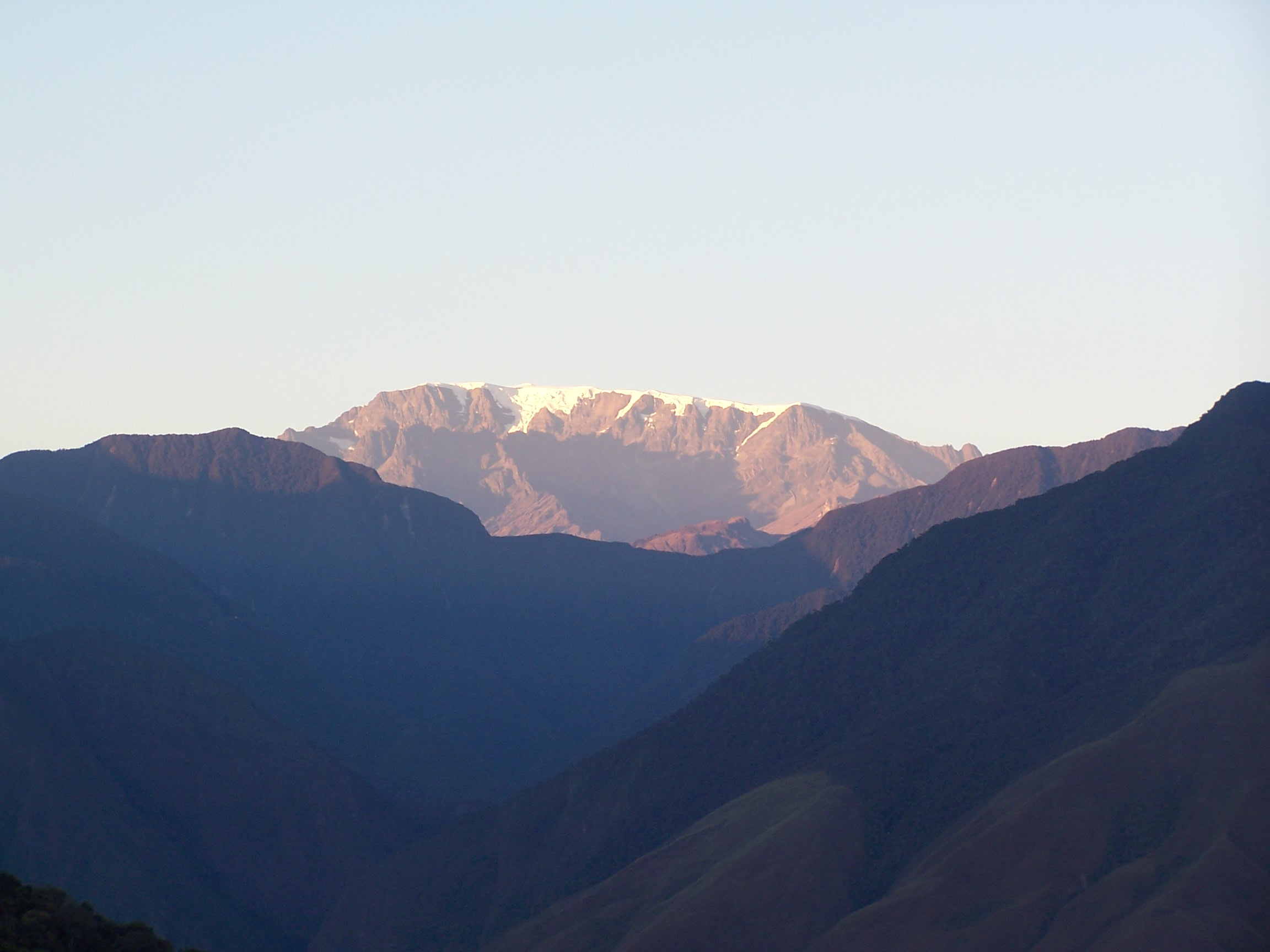 Mount Mururata as seen from Coroico, Nor Yungas Province, Bolivia.